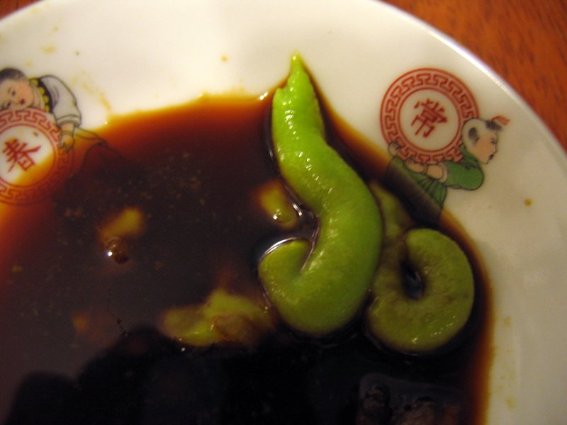 Wasabi in soy sauce Filipino: Isang platito ng toyo na may kahalong luntiang wasabi